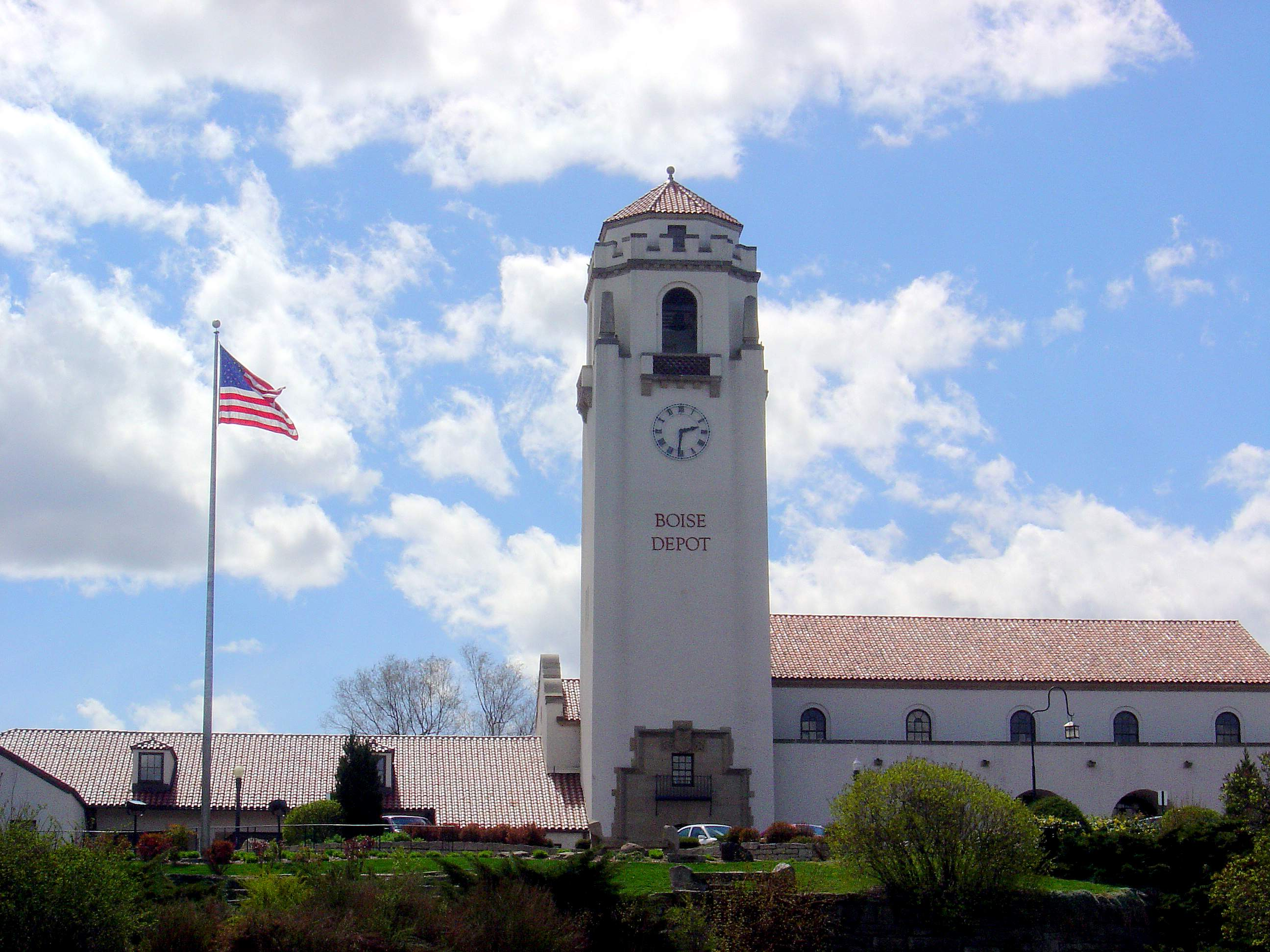 Taken of the Boise Train Depot, By Trent Cutler